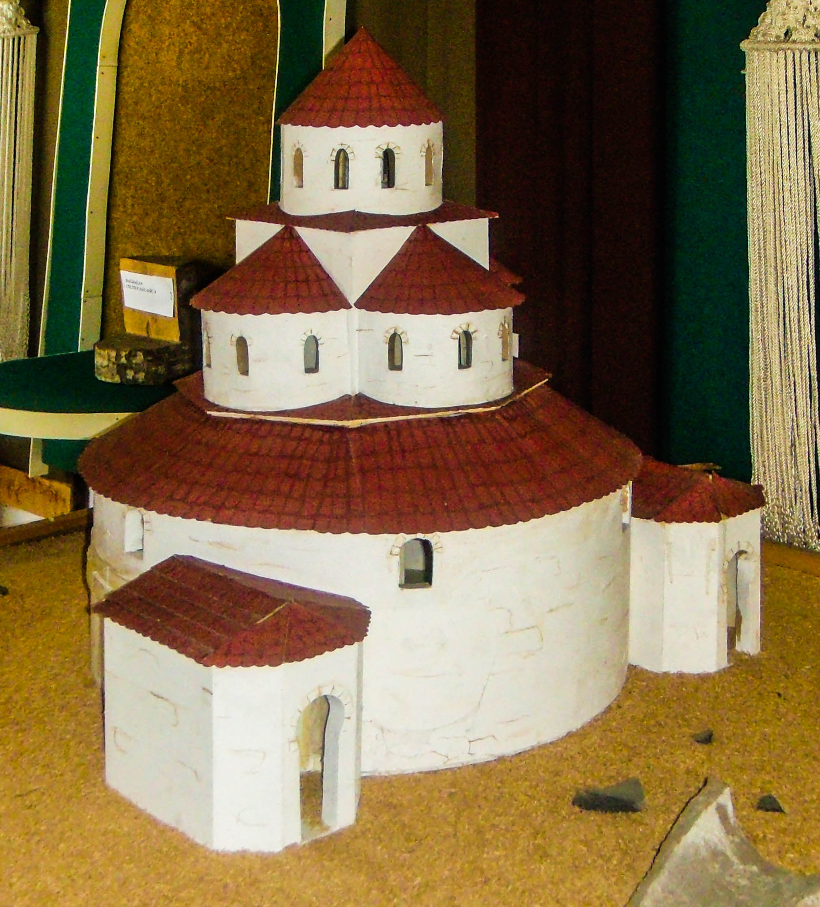 Lekiti church model in Qakh history museum